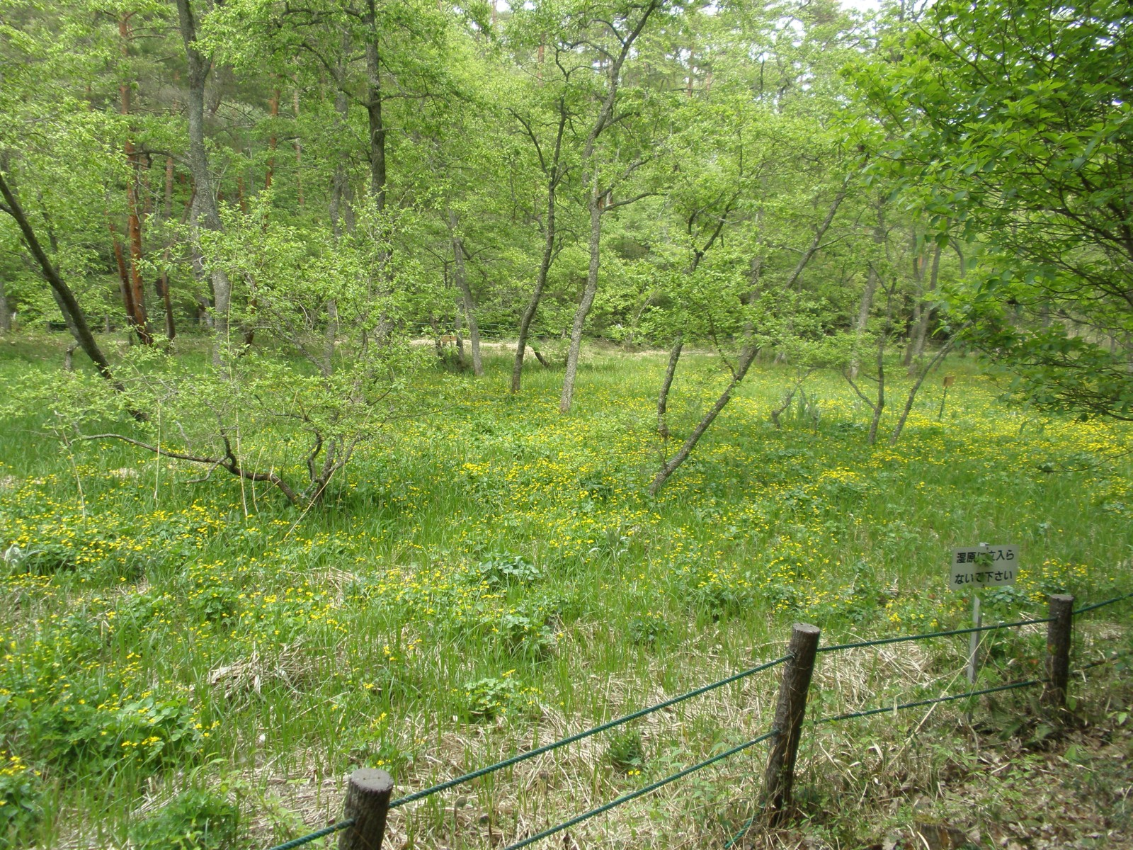 Caltha palustris which blooms in the Koigakubo moor, Niimi, Okayama.